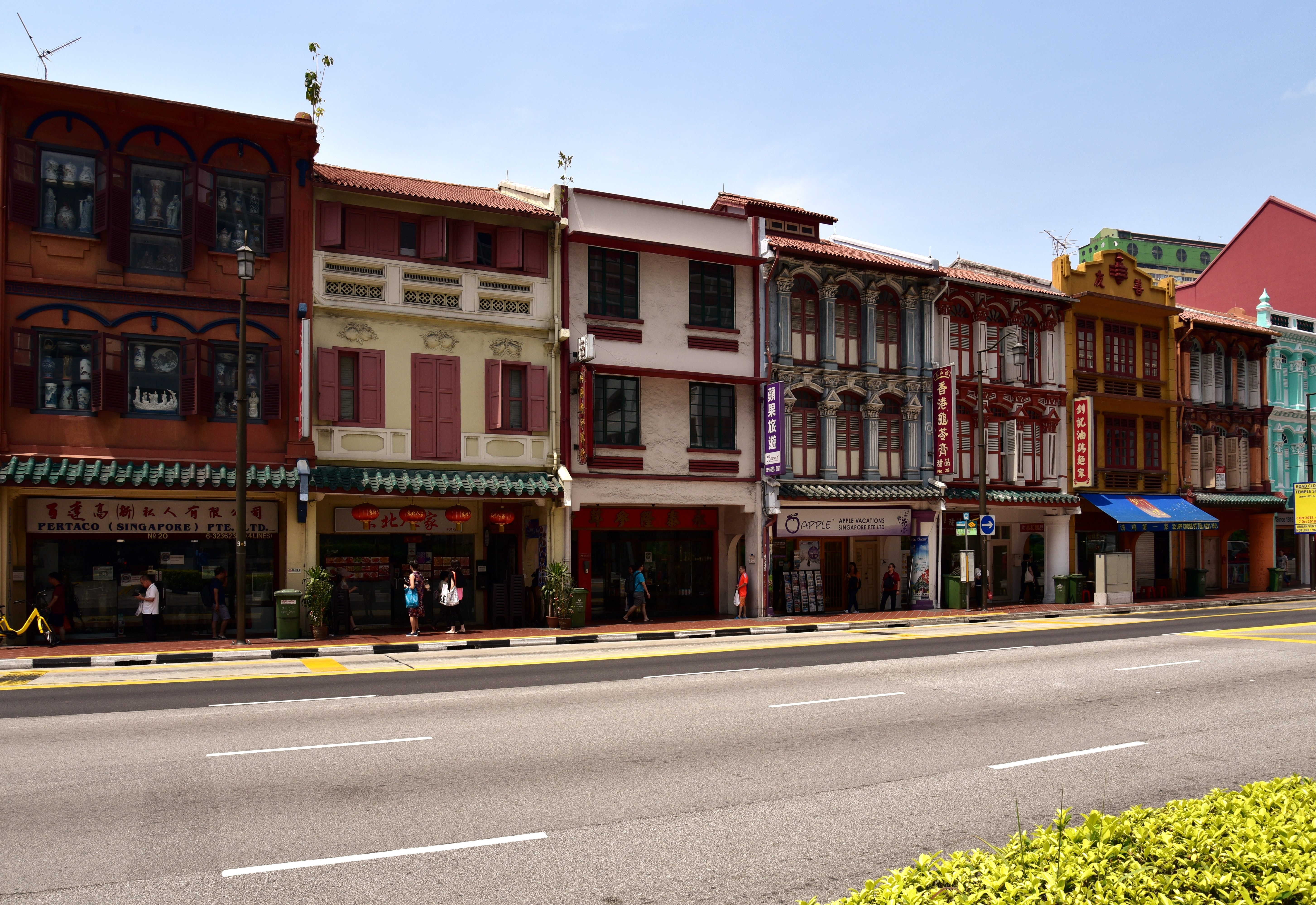 View of Upper Cross Street, Singapore